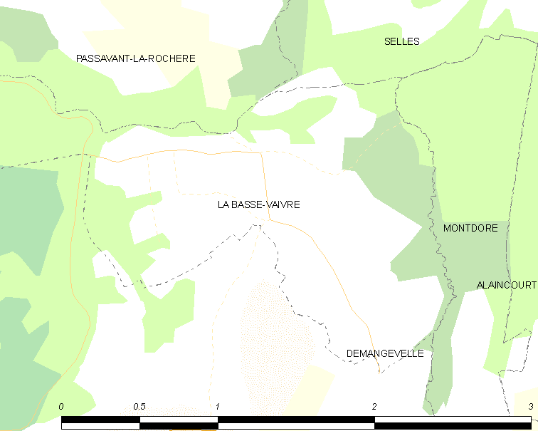 Map of French municipality